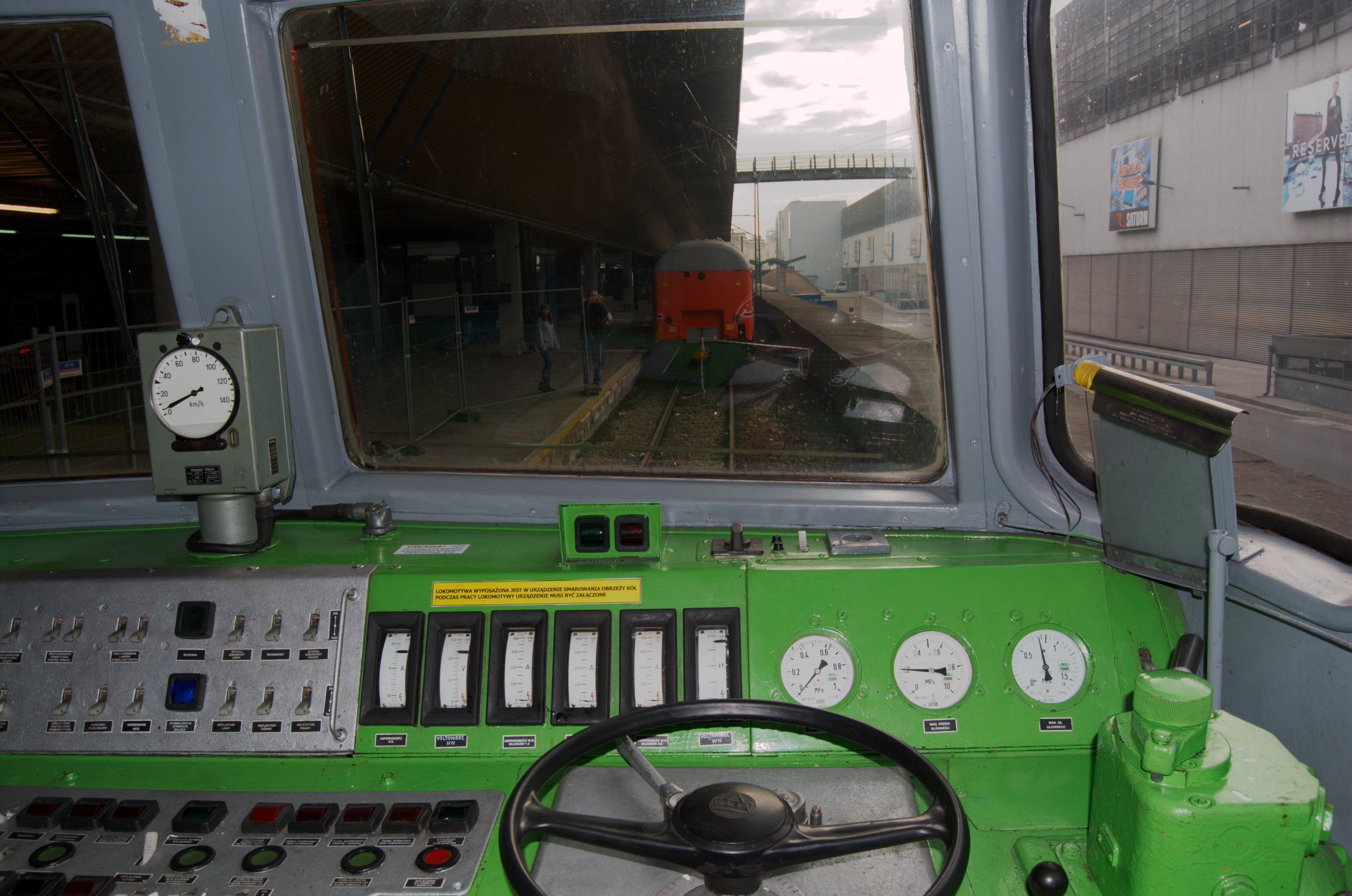 Engineer's cabin of ET22